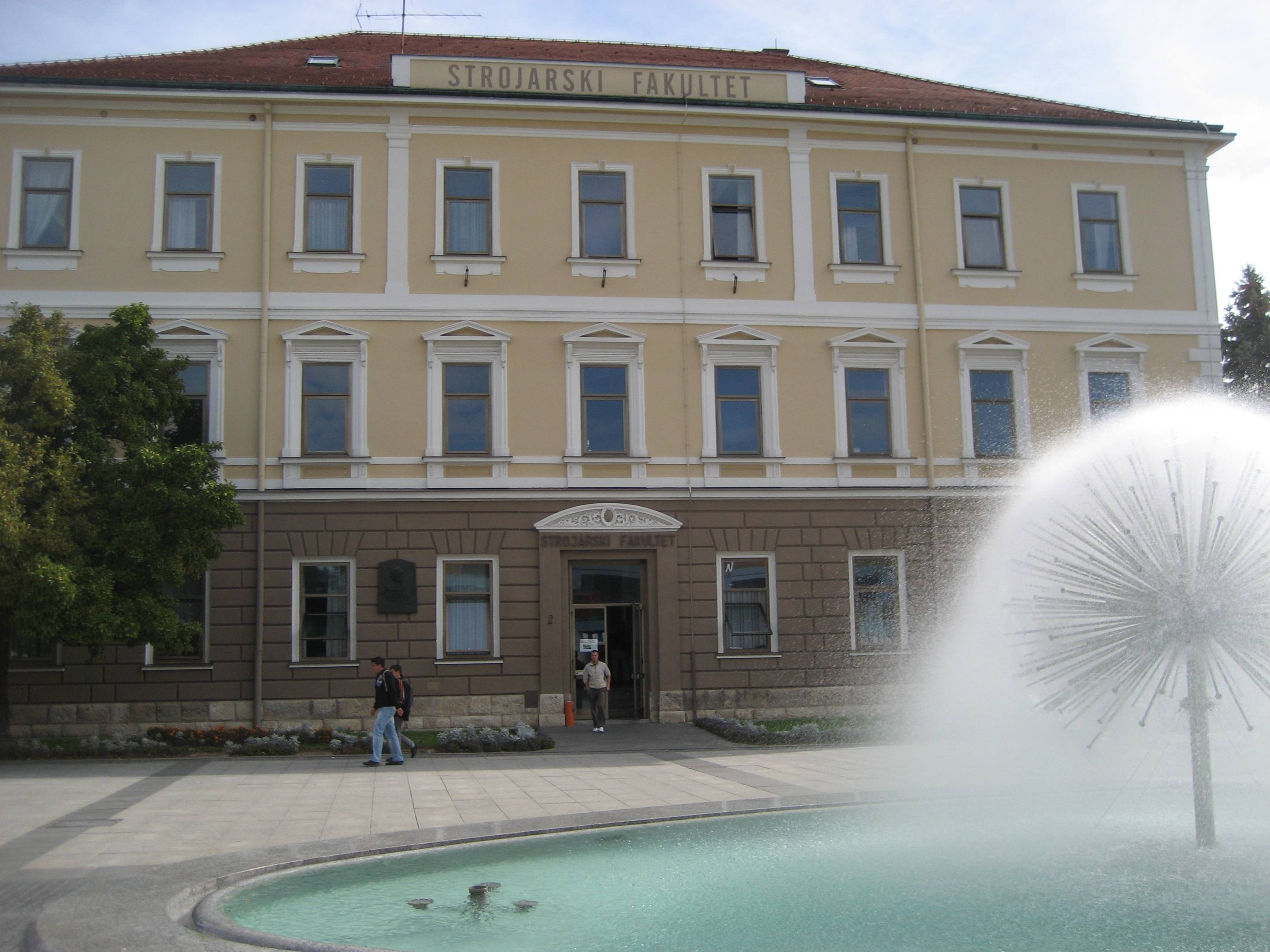 Slavonski Brod, Croatia, Maschinenbau Fakultät